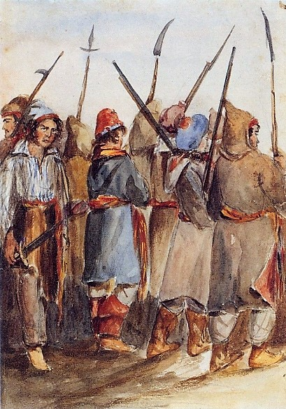 The Insurgents, At Beauharnois, Lower Canada. A depiction of some of the rebels at Beauharnois. Katherine Jane Ellice was at her father-in-law's seigneury at Beauharnois when it was attacked on November 4, 1838. She was kept prisoner there with her sister Tina (Miss Eglantine Balfour) and other members of the household until November 10, when they were freed by troops.